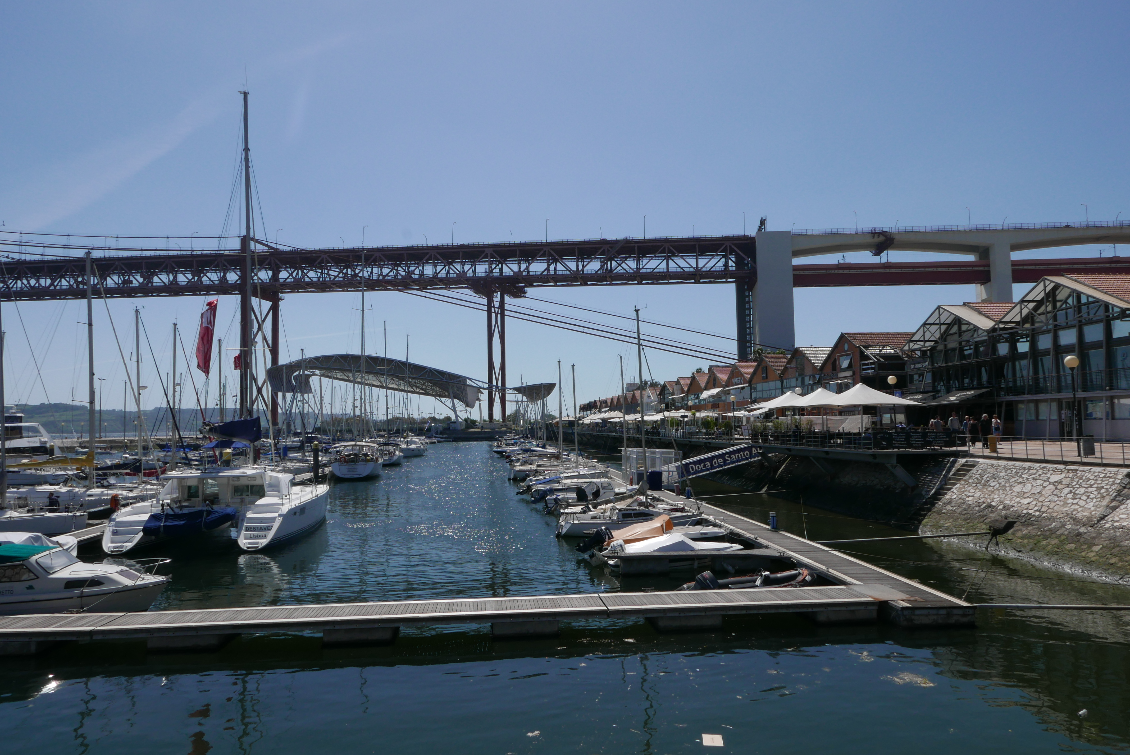 Lisbon, Portugal